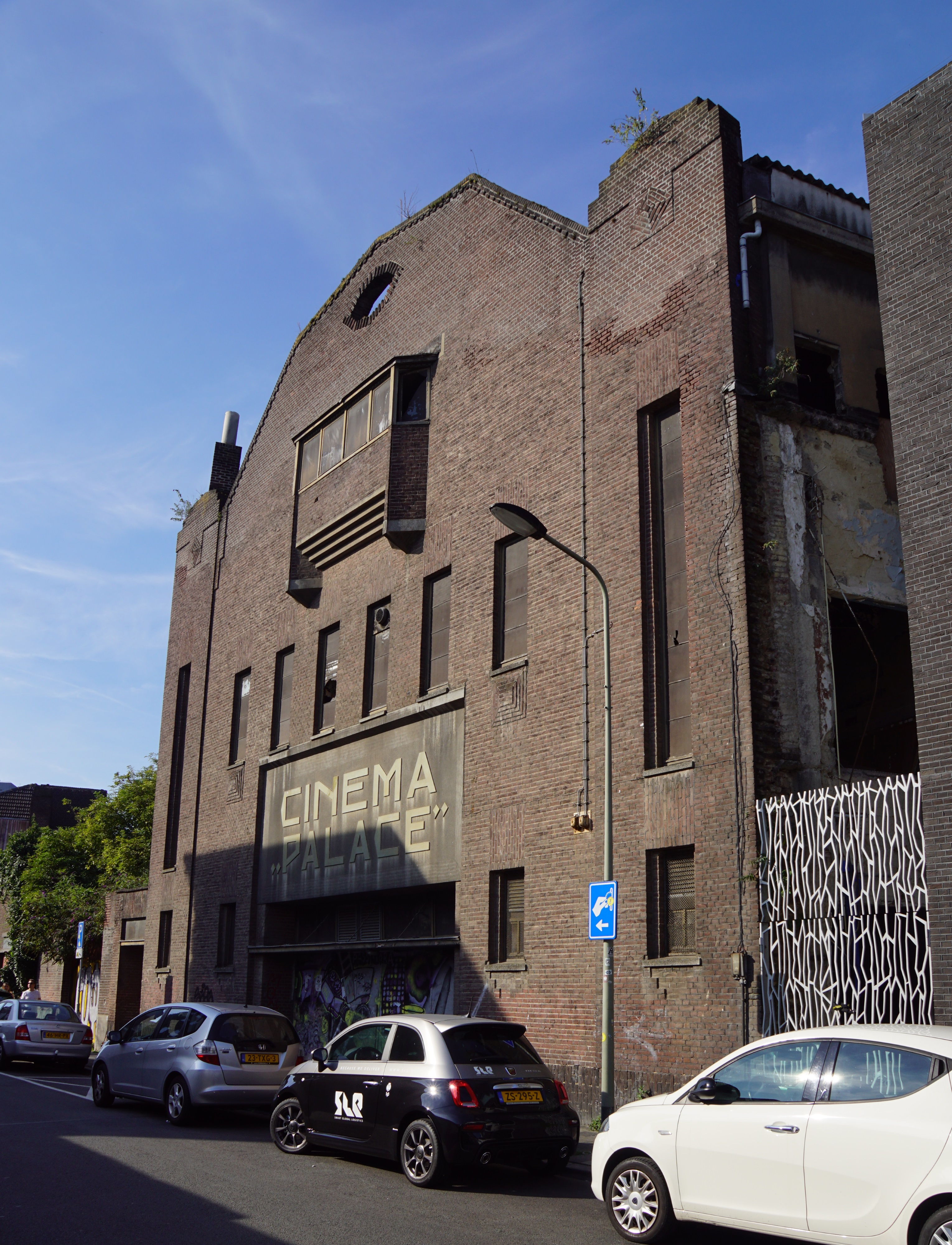 Former Cinema Palace, Lage Barakken 12, Maastricht, The Netherlands.